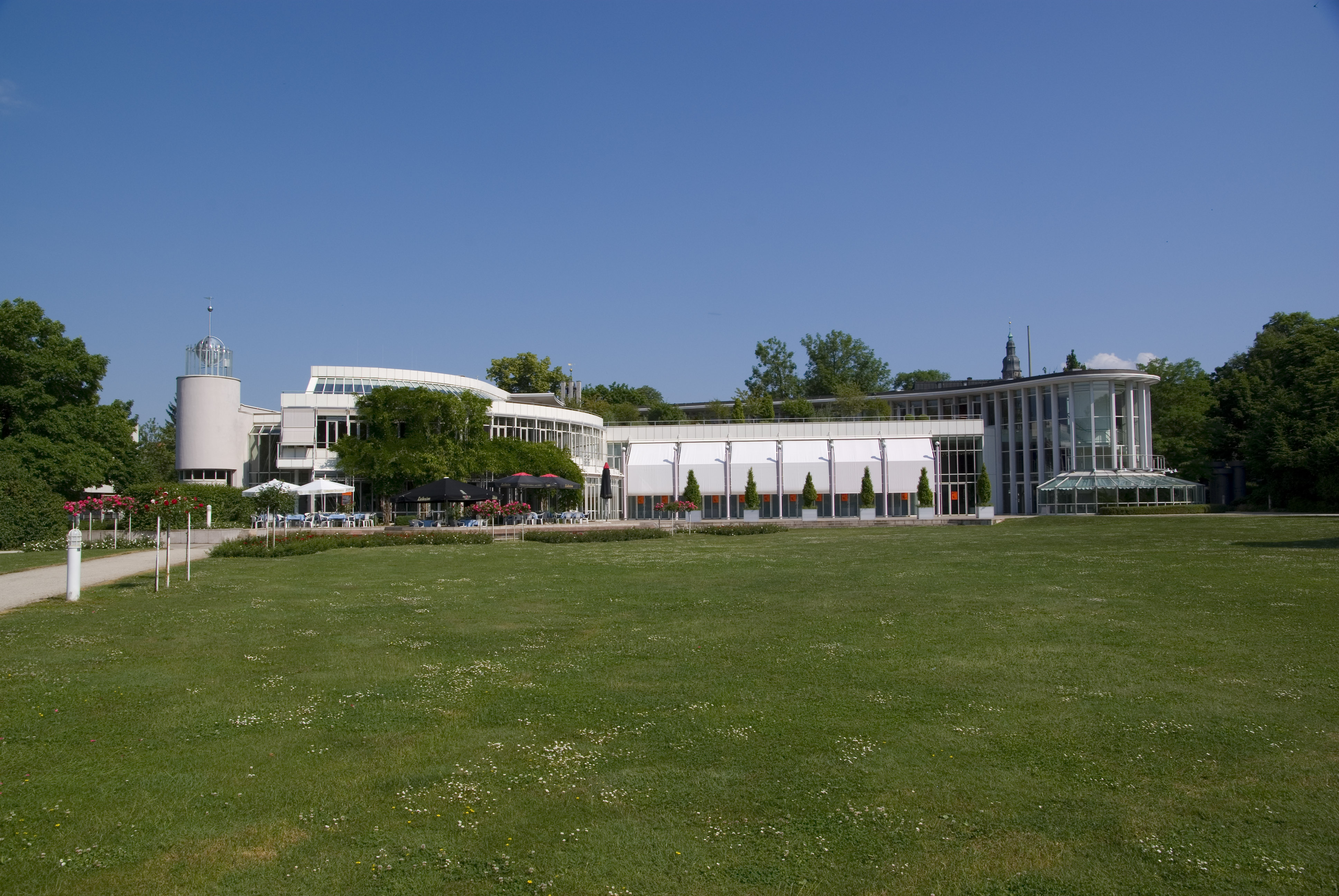 rosarium in Coburg, Kongresshaus